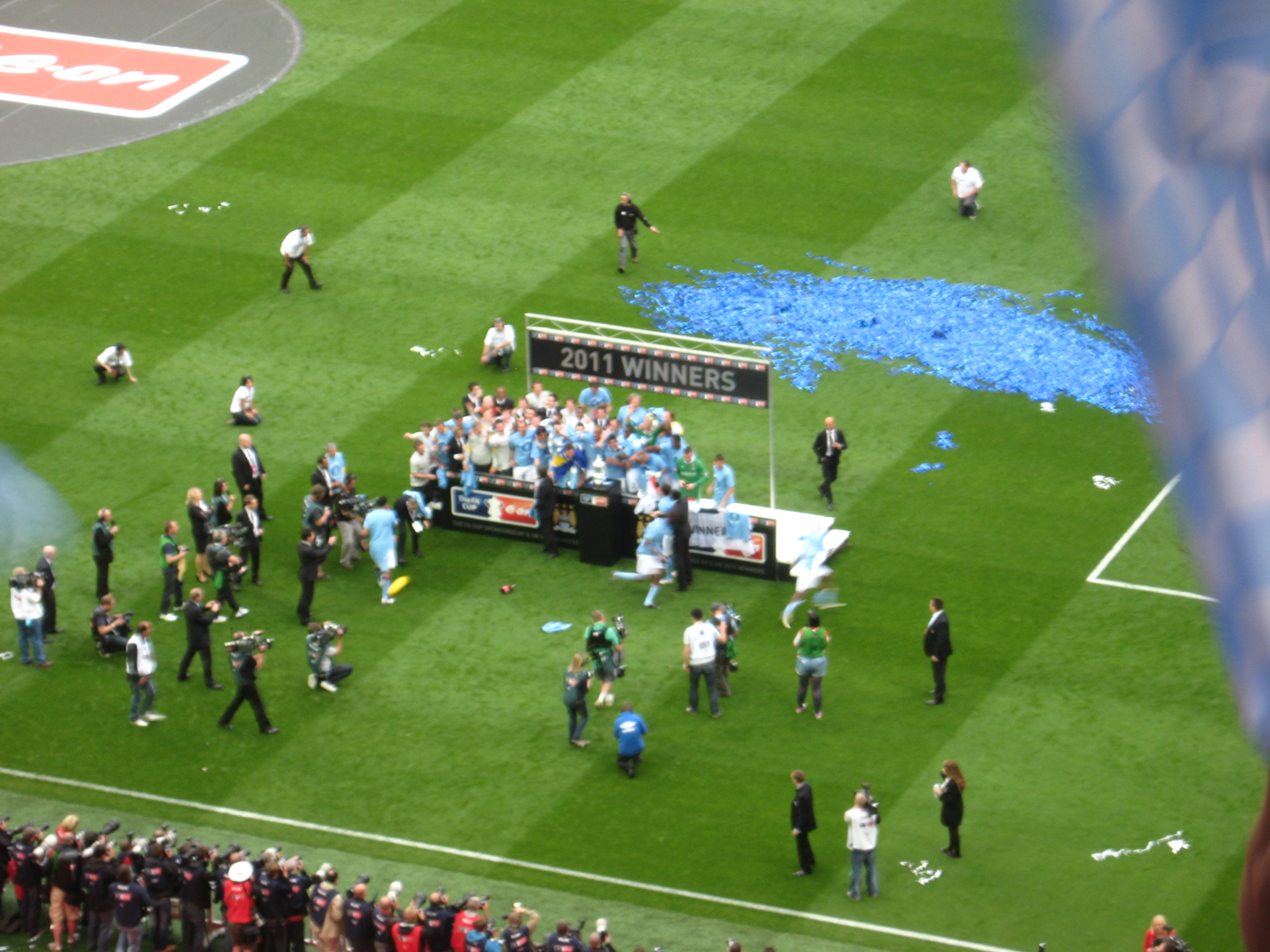 Manchester City celebrate with the FA Cup trophy after winning the 2011 FA Cup Final